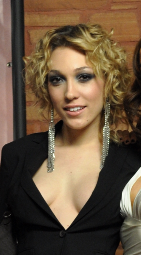 Lily LaBeau 011 AVN Awards.jpg